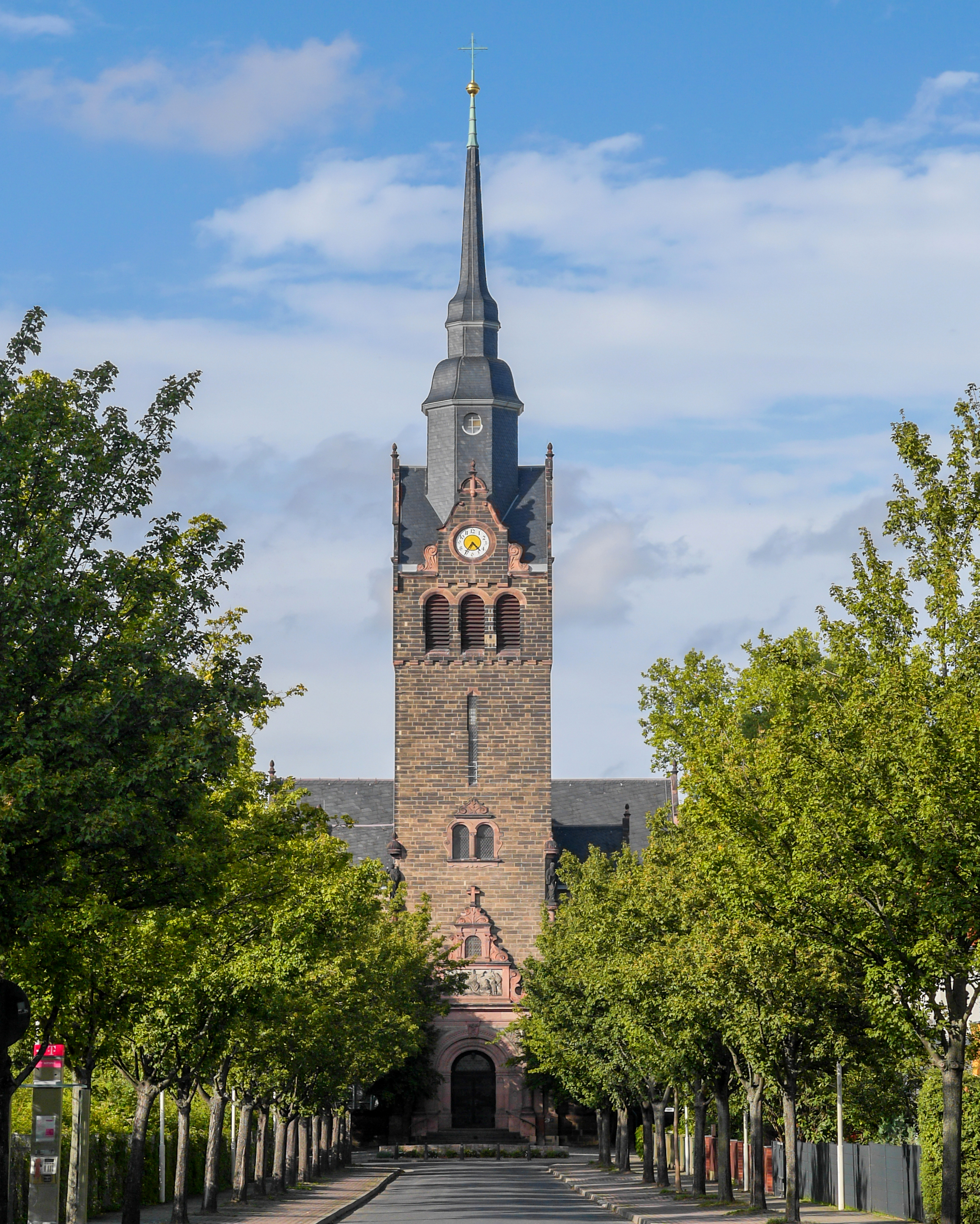 Coswig Pestalozzistraße 3 Peter-Pauls-Kirche Kirche (mit Ausstattung) V